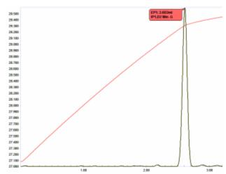 Fig. 12. Determination of free H2SO4 in copper leach solution by titration in propan-2-ol with 1 mol/L KOH in propan-2-ol (author:Lab Rat1941) Fig. 12. Determination of free H2SO4 in copper leach solution by titration in propan-2-ol with 1 mol/L KOH in propan-2-ol (author:Lab Rat1941)